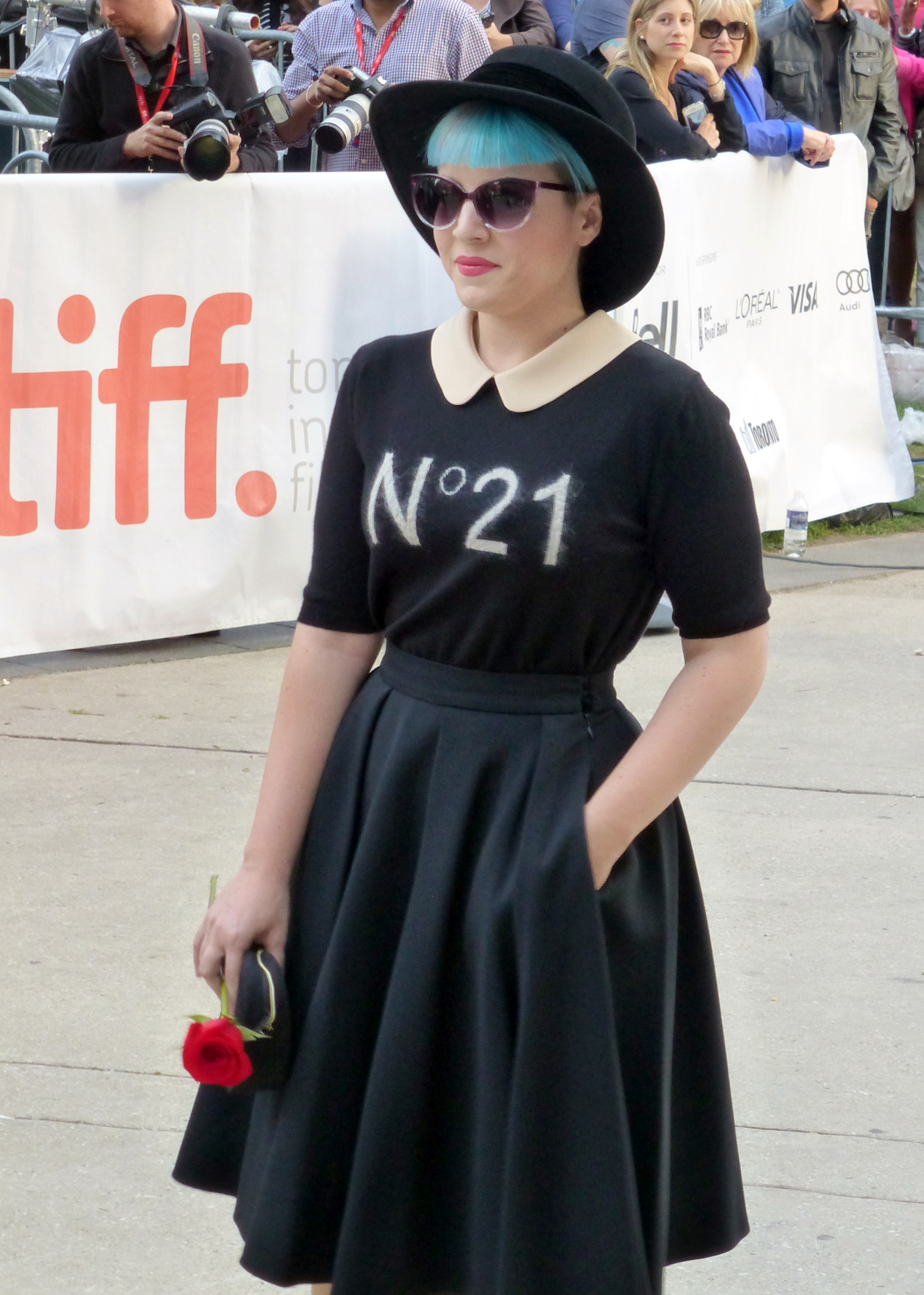 Federica Foglia at the premiere of August: Osage County, Toronto Film Festival 2013